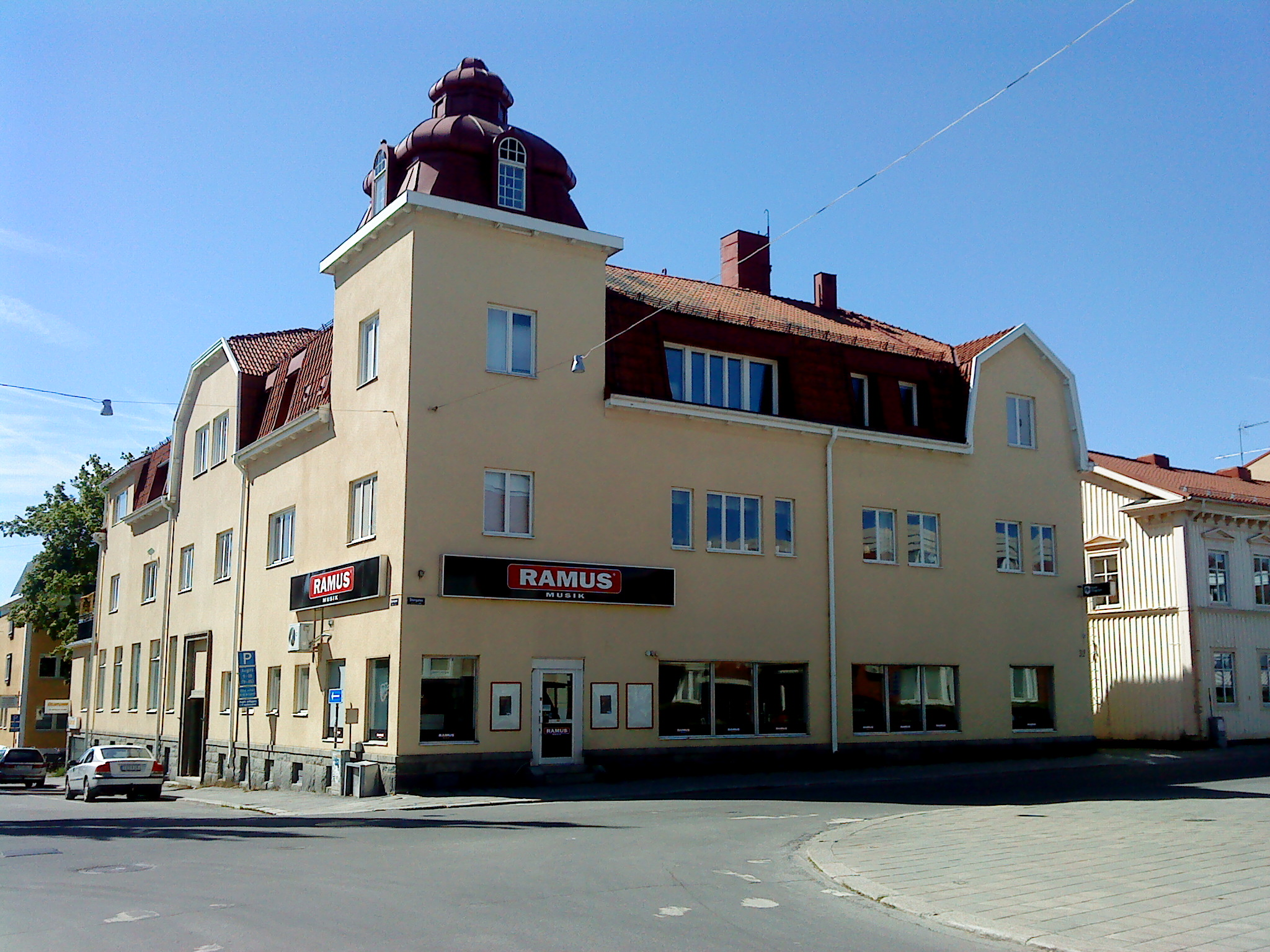 Former bank of Skellefteå (today Ramus musicstore), 1912-14 by architect Viktor Åström.